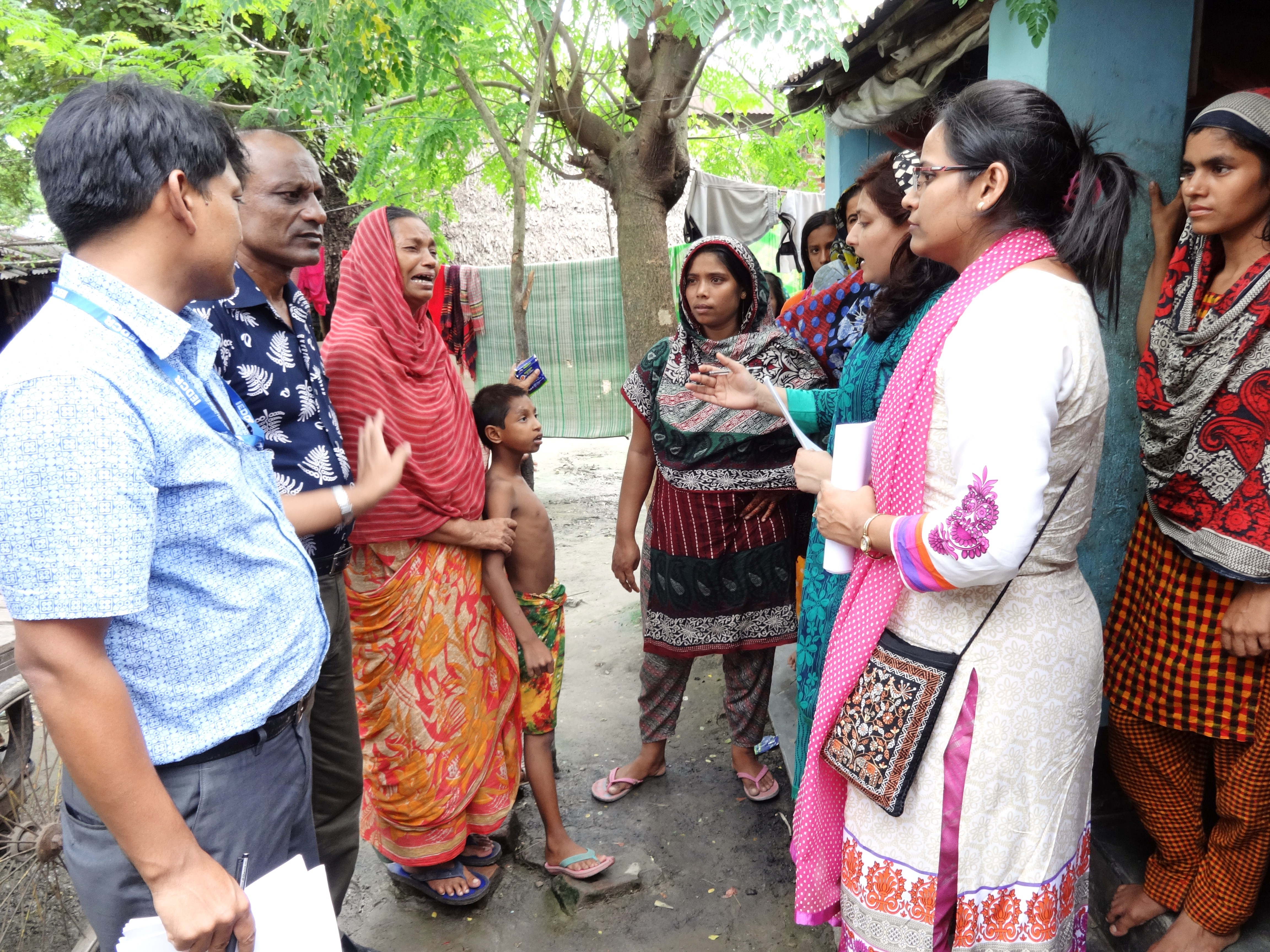 During a cholera outbreak in Chuadanga, Bangladesh, in August 2014, FETP resident Rabeya Sultana conducts contact tracing in the community and interviews the mother of the index case. The outbreak affected more than 1,400 people in the area. Submitted by Rabeya Sultana – Bangladesh.